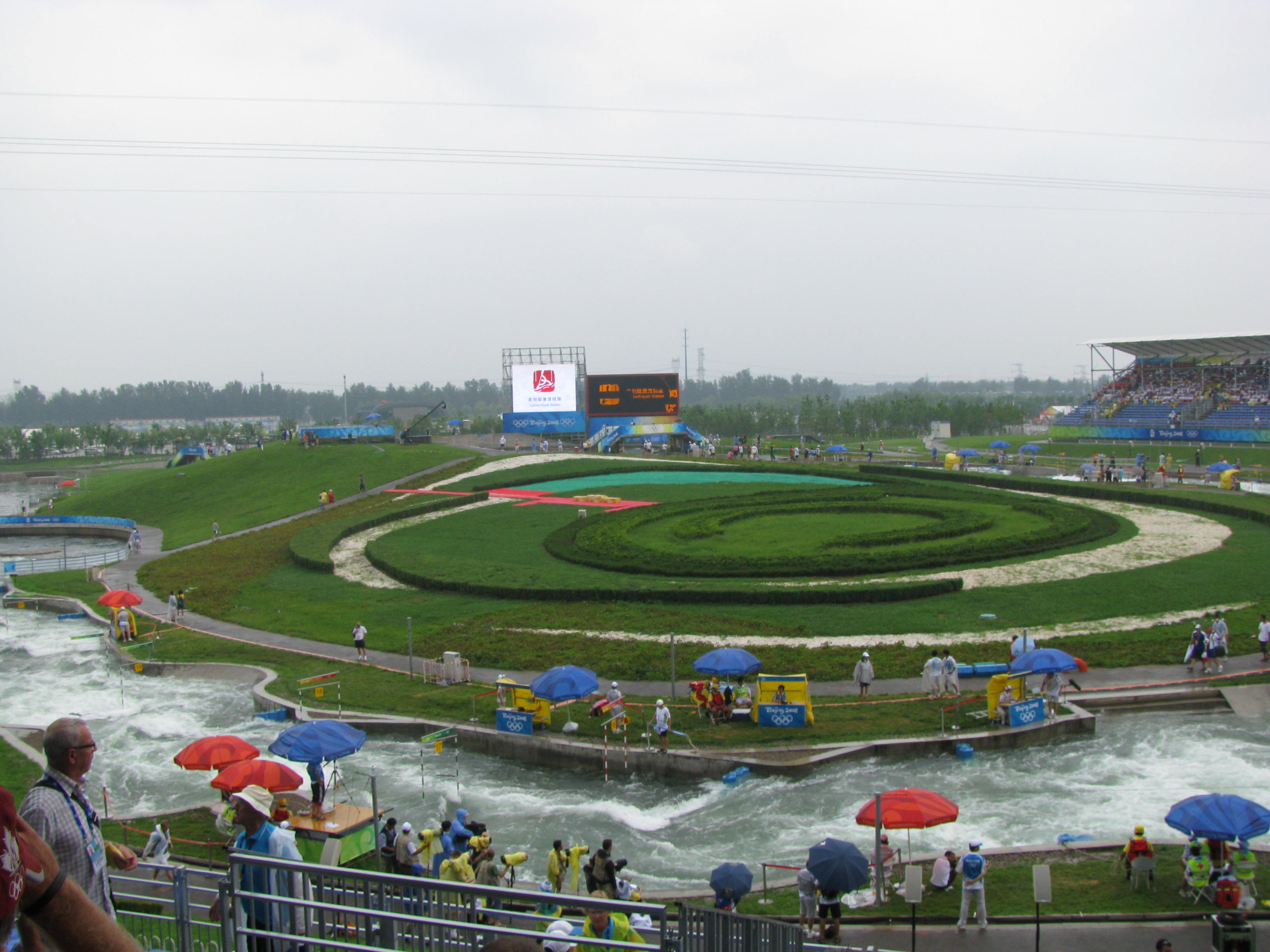 Gates #16 through #19, Shunyi Slalom Course, 2008 Olympic Games, Beijing, China.